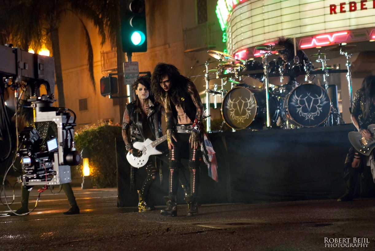 Behind the scenes shots of Black Veil Brides shooting their music video for "Rebel Love Song".